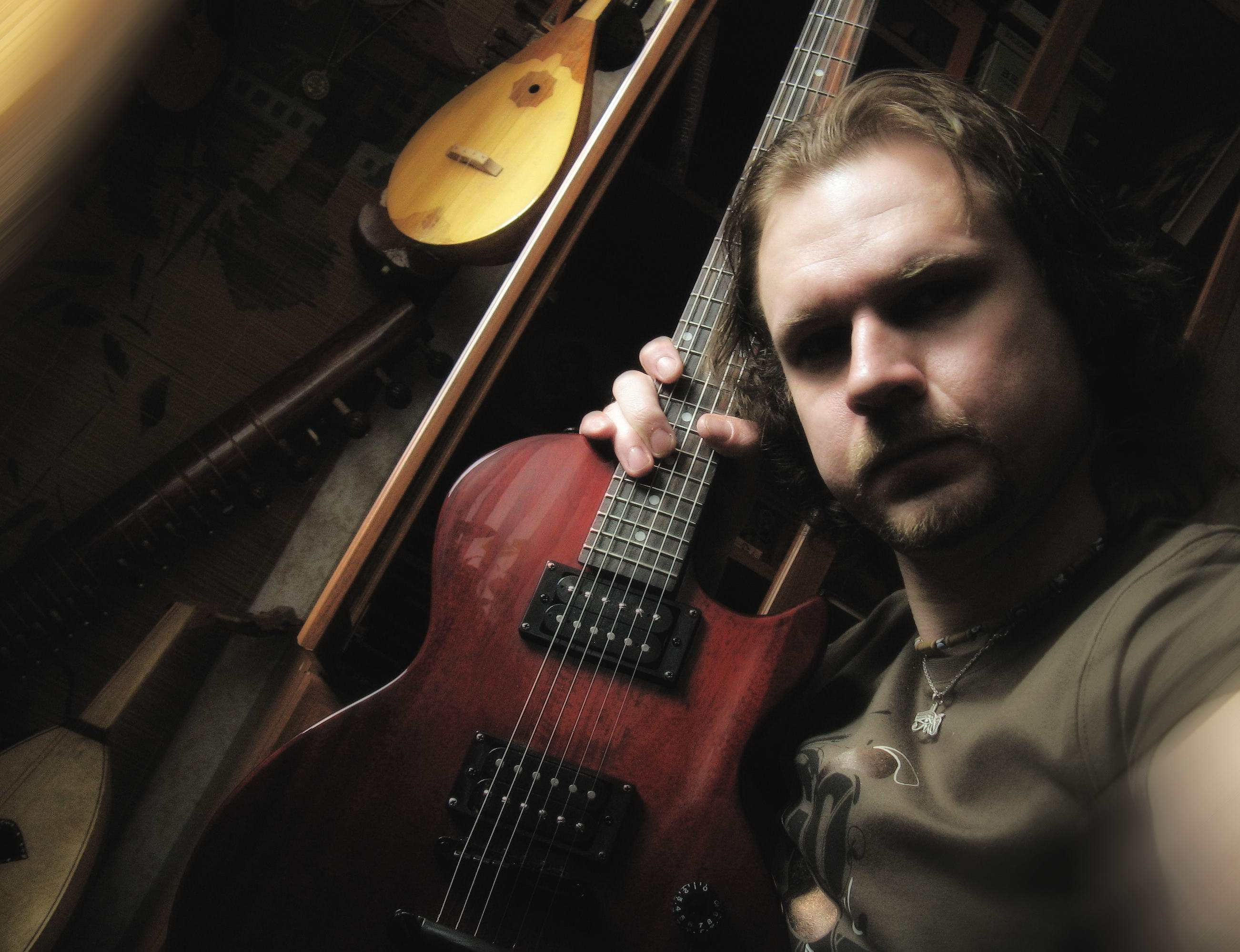 Russian musician Senmuth with instruments